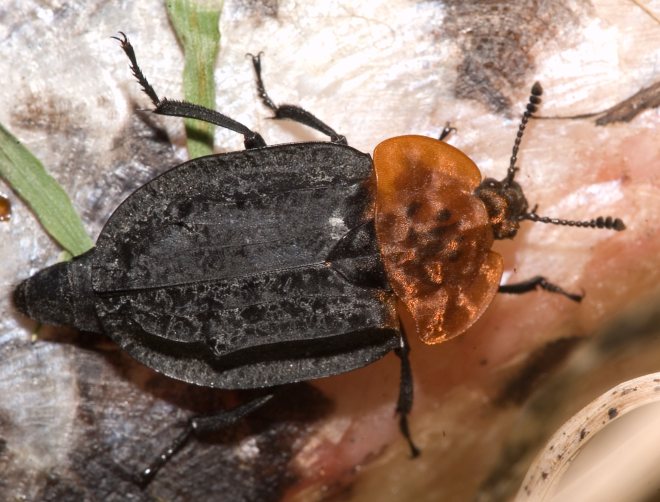 Please report references to kulacgmx.at.